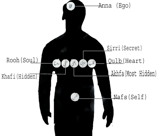 The "spiritual inner entities of the human body" according to Riaz Ahmed Gohar Shahi, leader of the "Messiah Foundation International". Uploader did not identify which work by Shahi this is taken from, or what it is supposed to illustrate.